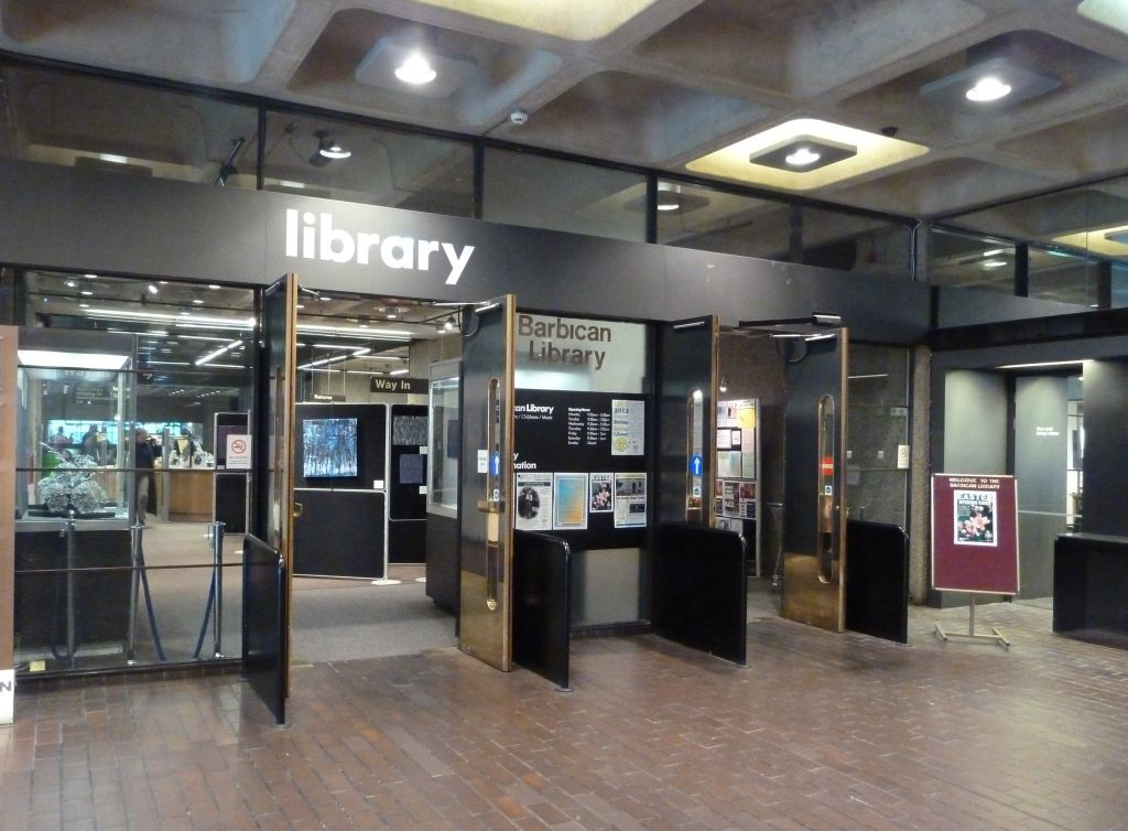 Part of the Barbican centre - alongside the theatre, gallery, concert hall plus bars and restaurants